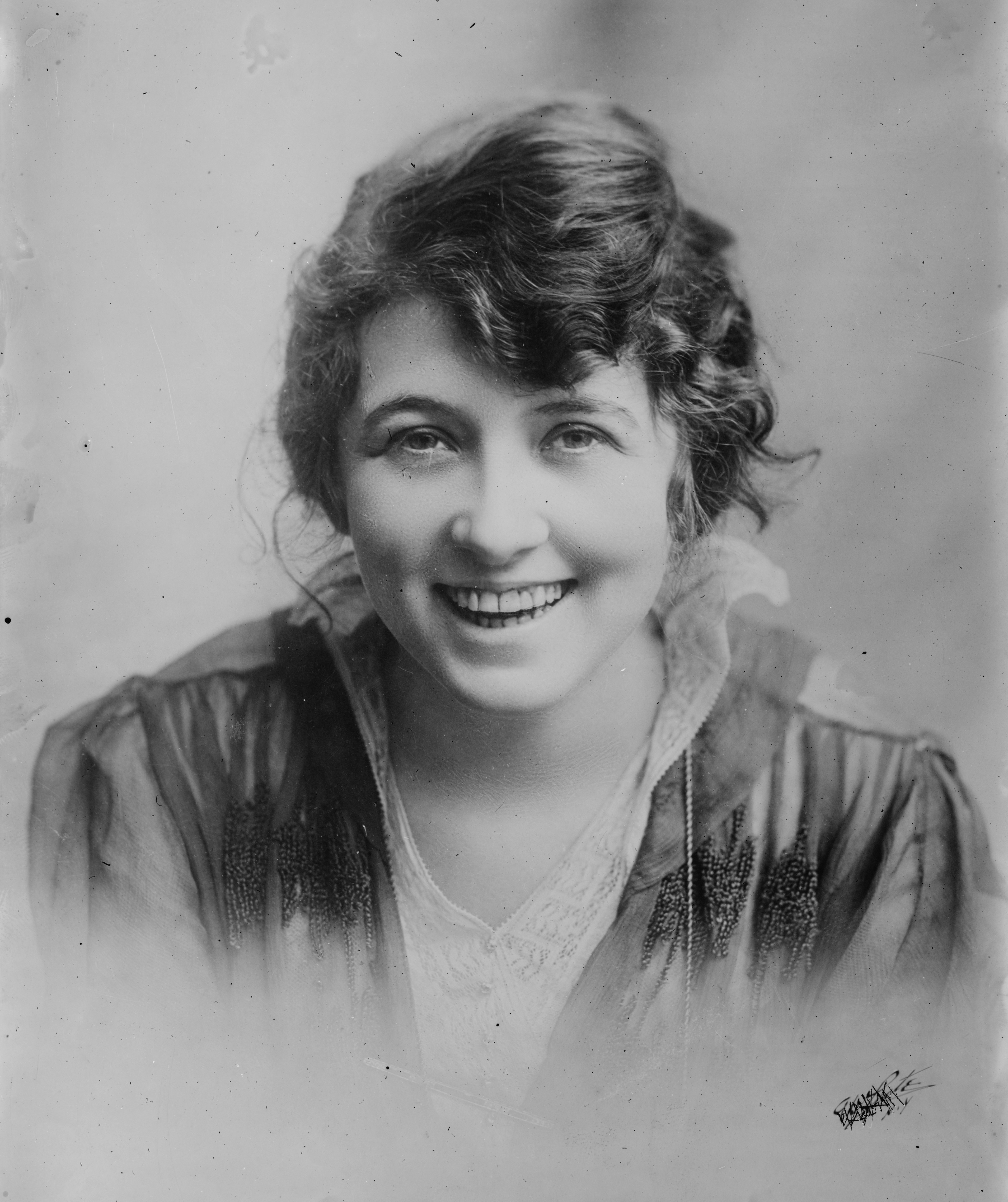 Adele Rowland circa 1916